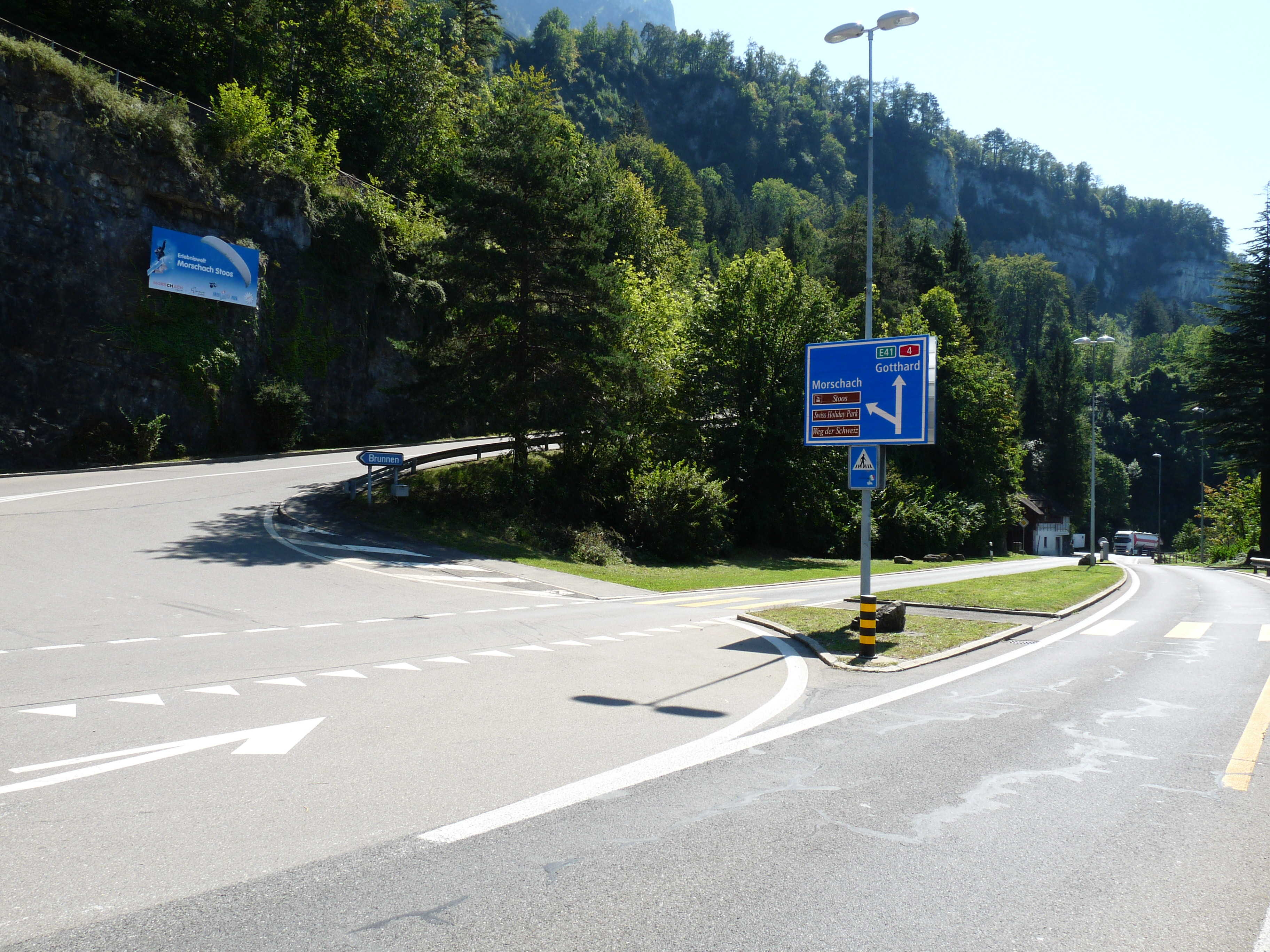 E41 near Morschach